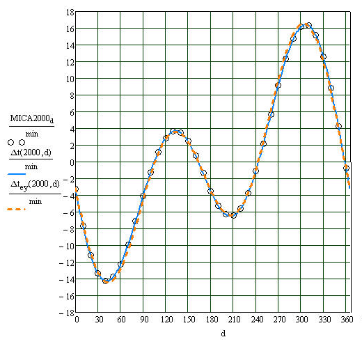 Comparison of MICA results with the equation of time and an approximation for the year 2000